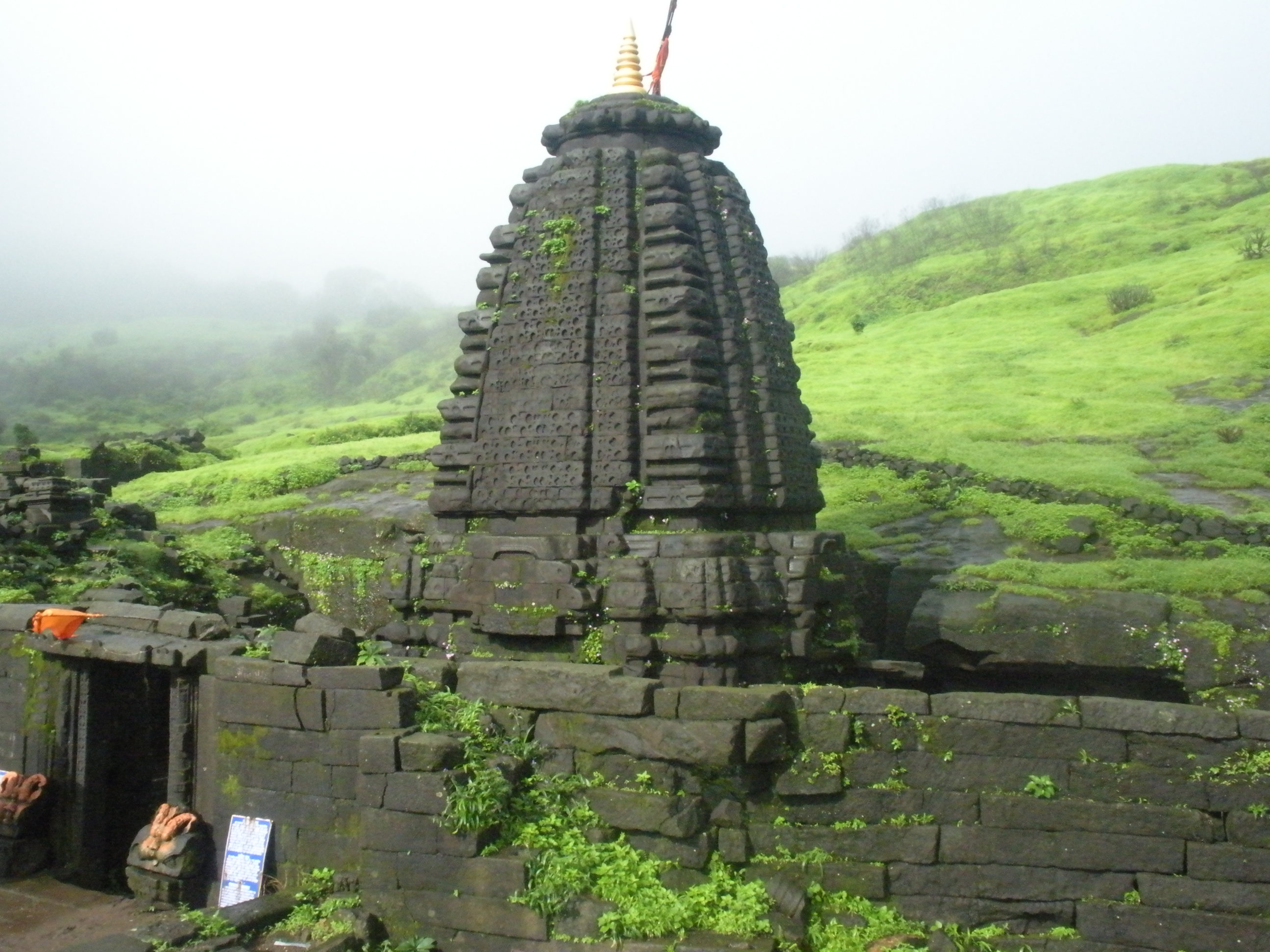 Harishchandramandir